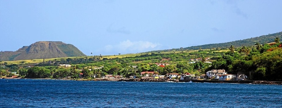 Old Road Town from Old Road Bay 中文（中国大陆）: 从旧罗德湾看望旧罗德镇